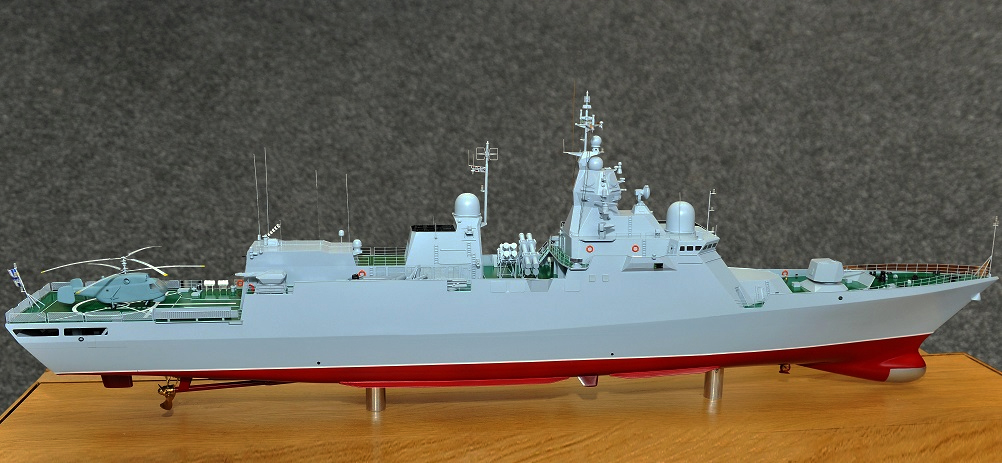 Model of the ship type «corvette» of the project 58250